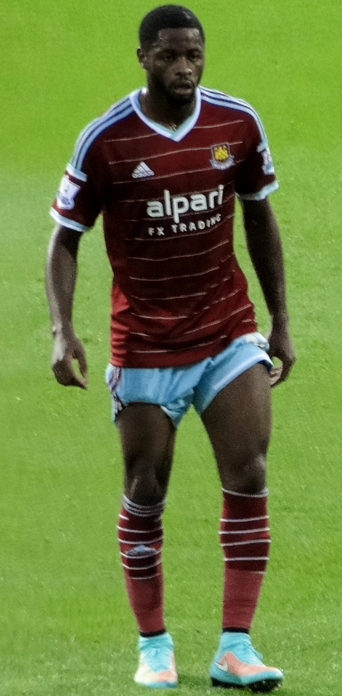 West Ham United player Alex Song during their win against Liverpool at the Boleyn Ground, London, September 2014